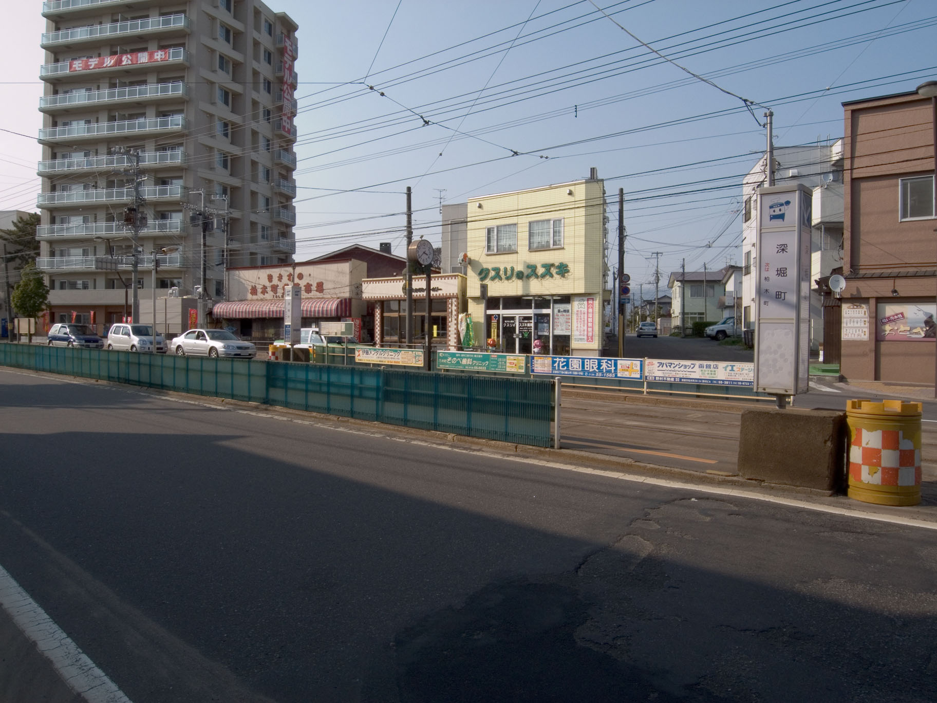 Fukaboricho station in Hakodate tram, Hokkaido, Japan